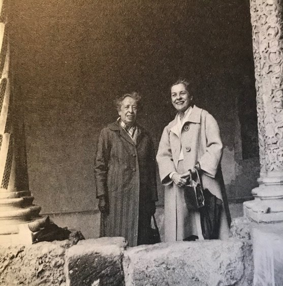 Portrait of Hannah Arendt with Mary McCarthy